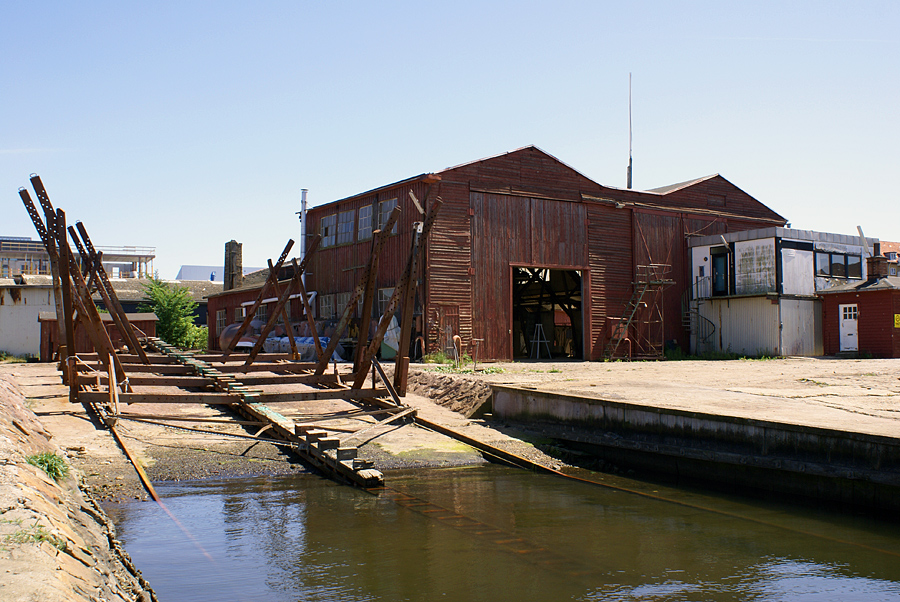 Holbæk Shipyard, Holbæk, Denmark, which closed by the end of 2007, and now hopefully saved by a local fund as a museum shipyard for wooden ships.